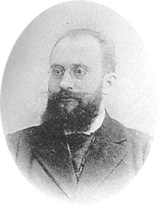 K. A. Florenz, Professor of German Language & Literature, & Comparative Philology.